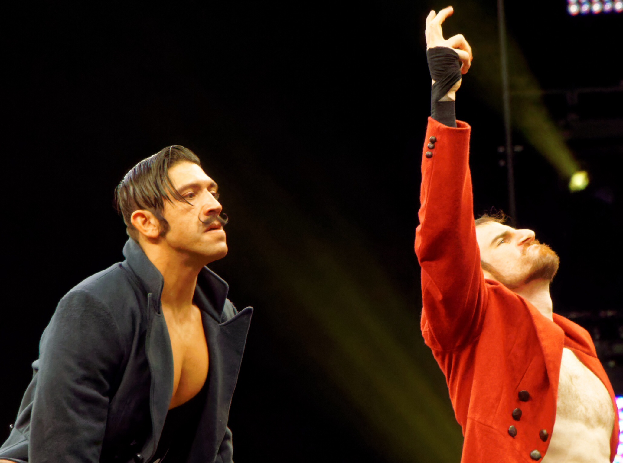 WrestleMania Axxess takes over the Kay Bailey Hutchison Convention Center in Dallas March 31-April 3. Featuring Superstar and Diva meet-and-greets, memorabilia displays and much more, WrestleMania Axxess is one event WWE fans of all ages will want to be part of. Don't miss out!